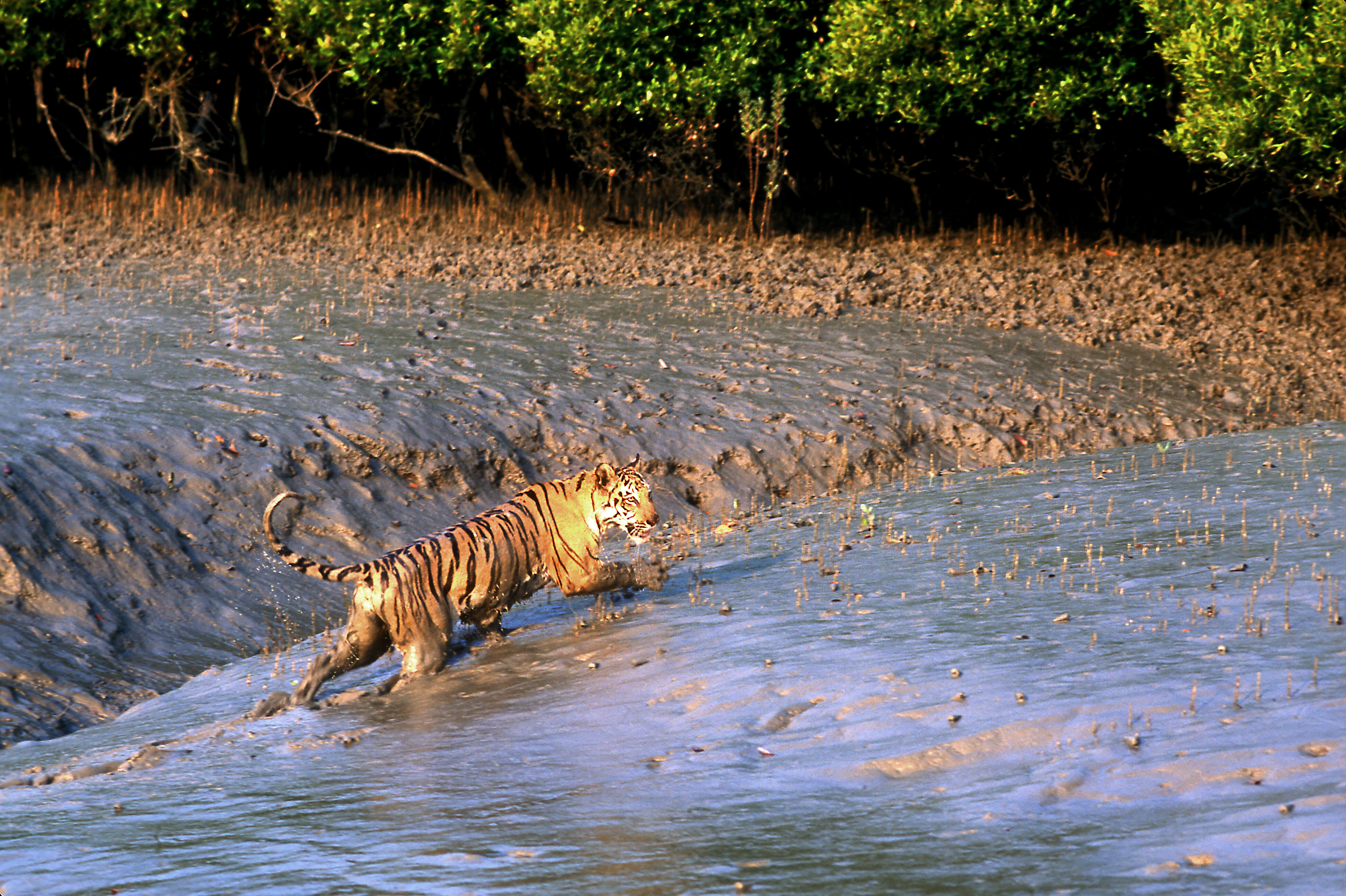 sundarban